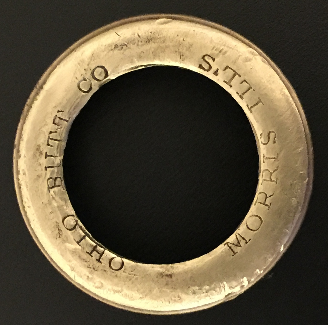 A brass caster ring manufactured by the Ohio Butt Company in Morris, Illinois, circa 1880.